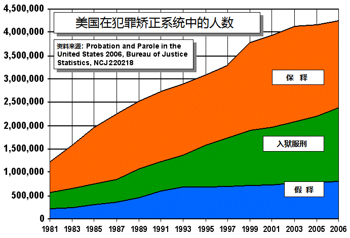 U.S. timeline of adults under correctional supervision. Over 7.2 million people were on probation or parole, or incarcerated in jail or prison at yearend 2006. "About 3.2% of the U.S. adult population, or 1 in every 31 adults, were incarcerated or on probation or parole at yearend 2006." [1] The statistics for the chart are from the Bureau of Justice Statistics (BJS), U.S. Department of Justice: Correctional Population Trends Chart: [2]. Data: [3]. Probation and Parole in the United States, 2006. NCJ 220218. [4]. Published December 2007. Adults on probation, in jail or prison, and on parole, United States, 1980-2006. PDF file. csv file format. From Sourcebook of Criminal Justice Statistics using BJS info. Simplified Chinese version.